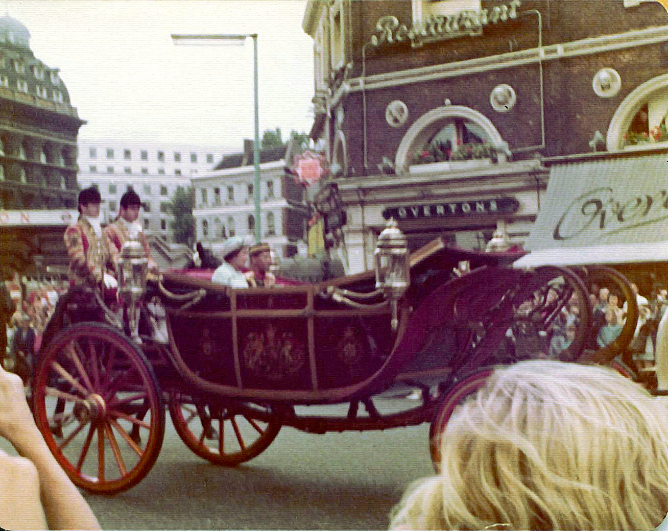 London: A royal procession on 9 July, 1974. Queen Elizabeth II and the Yang di-Pertuan Agong of Malaysia in a carriage. In background "Overton's" restaurant. This was near Victoria Station.